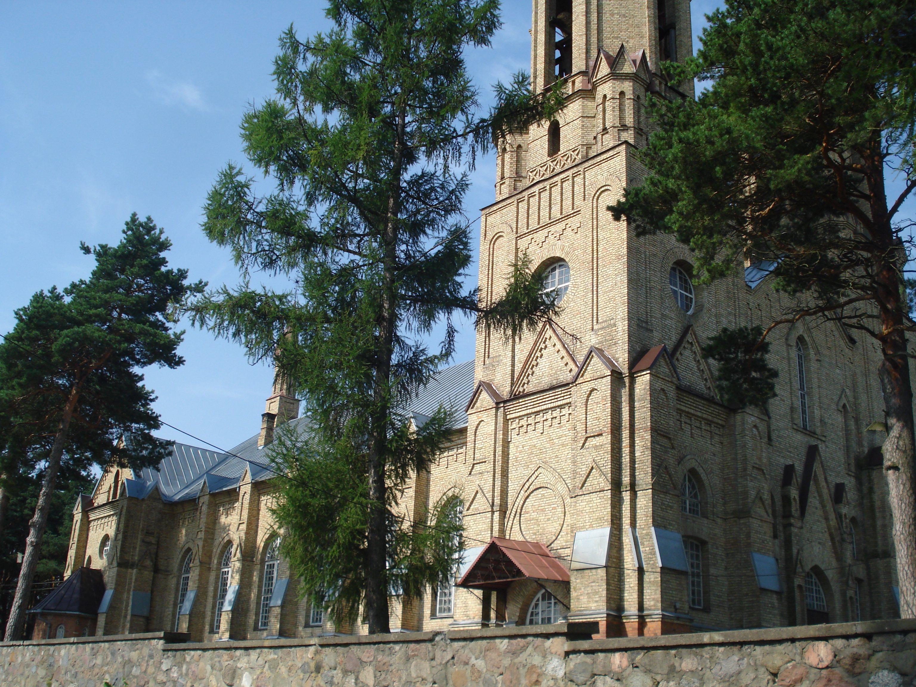 Church of John the Baptist in Lavoriškės, Lithuania. 1899–1906Lietuvių: Lavoriškių Šv. Jono Krikštytojo bažnyčia